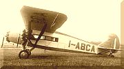 Italian Caproni Ca.97 civil utility aircraft